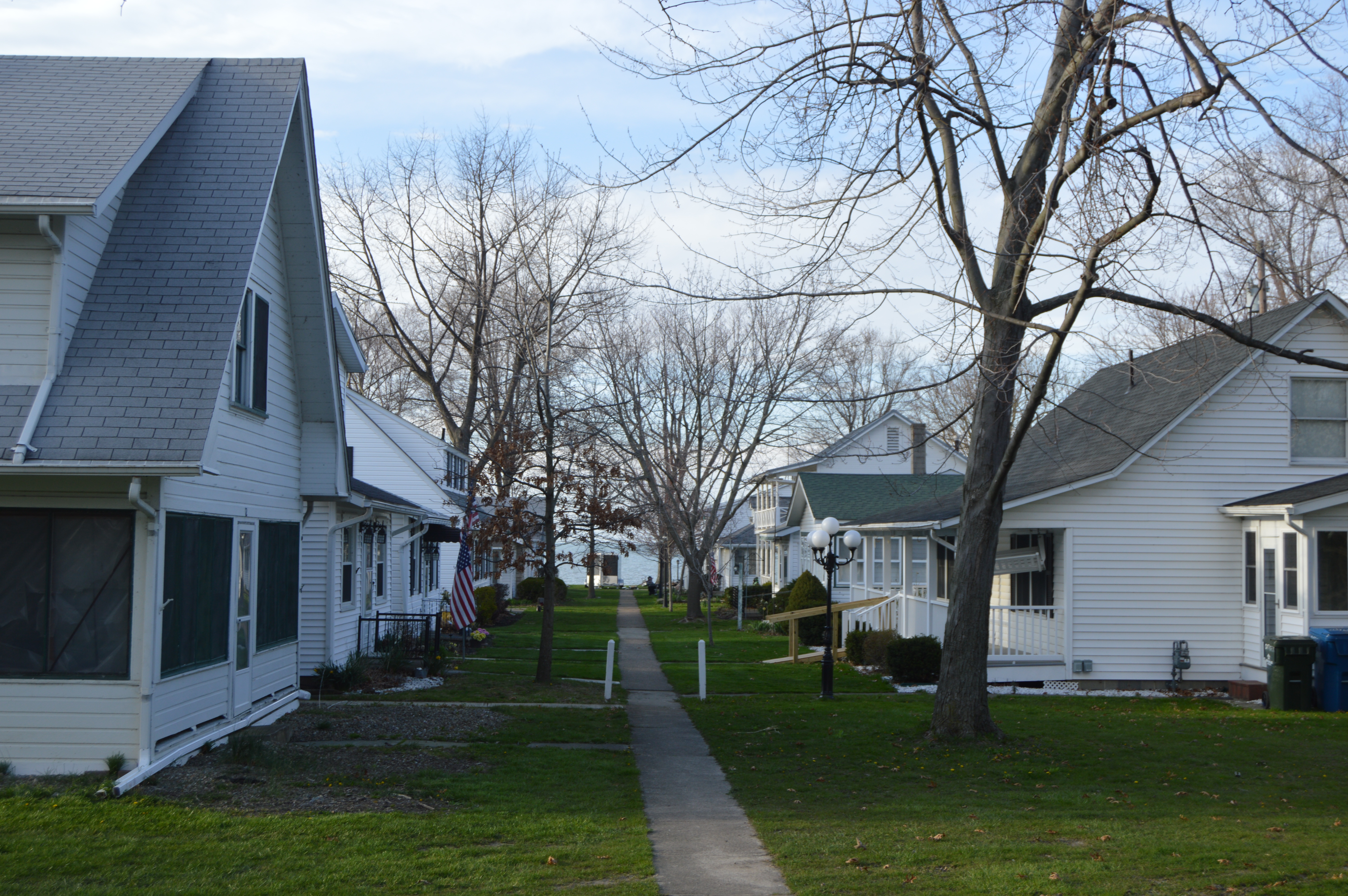 Cottages at the 103rd OVI complex, located at 5501 Lake Road (U.S. Route 6) in Avon Lake, Ohio, United States. In the distance (highlighted) is the 103rd Ohio Volunteer Infantry Association Barracks, a museum concentrating on the history of the 103rd Ohio Infantry; built in 1910, it is listed on the National Register of Historic Places.